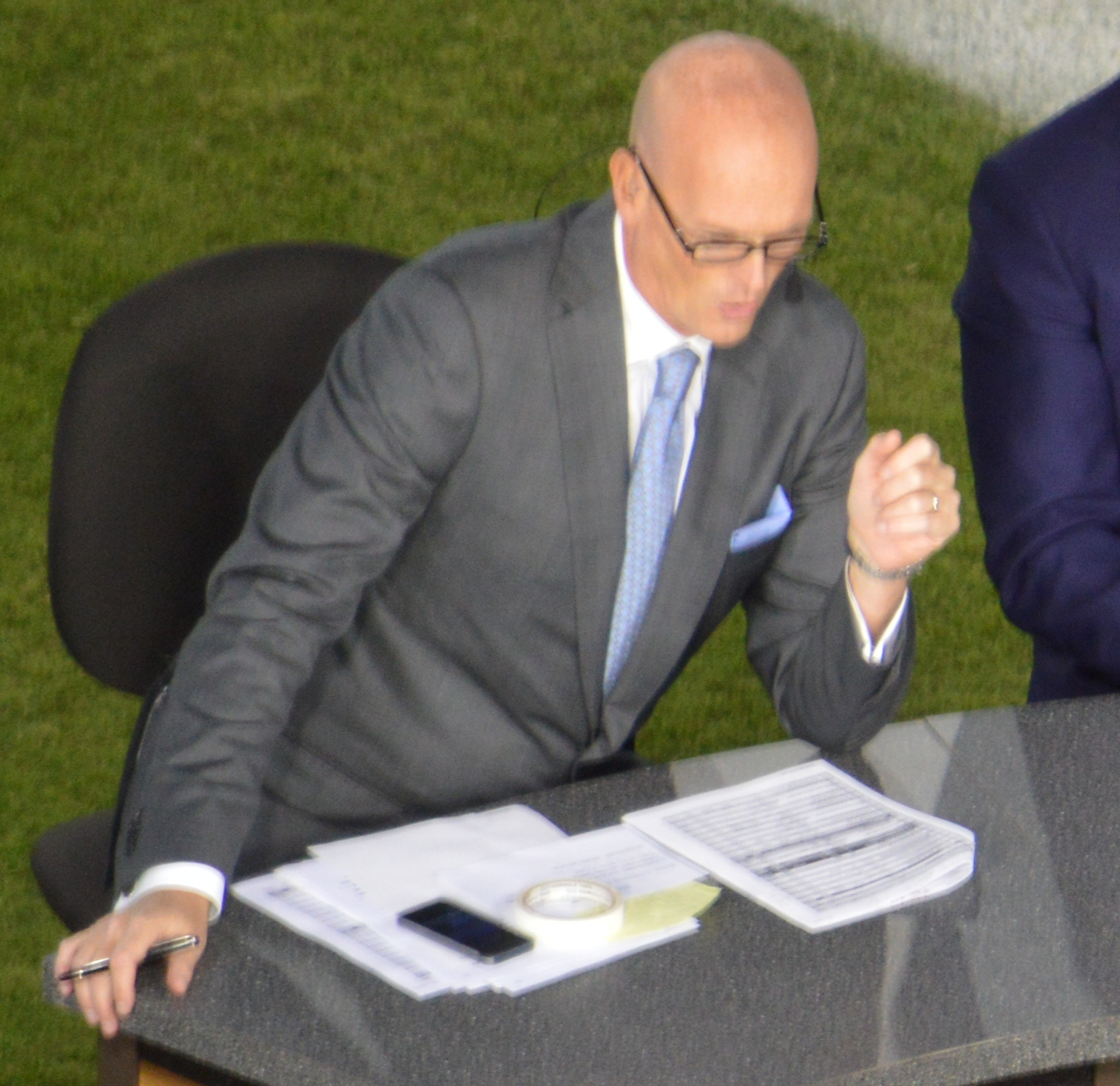 ESPN analysts Scott Van Pelt, from left, Brian Griese, Mark May and Kirk Herbstreit, before the 2013 Stanford-Oregon game